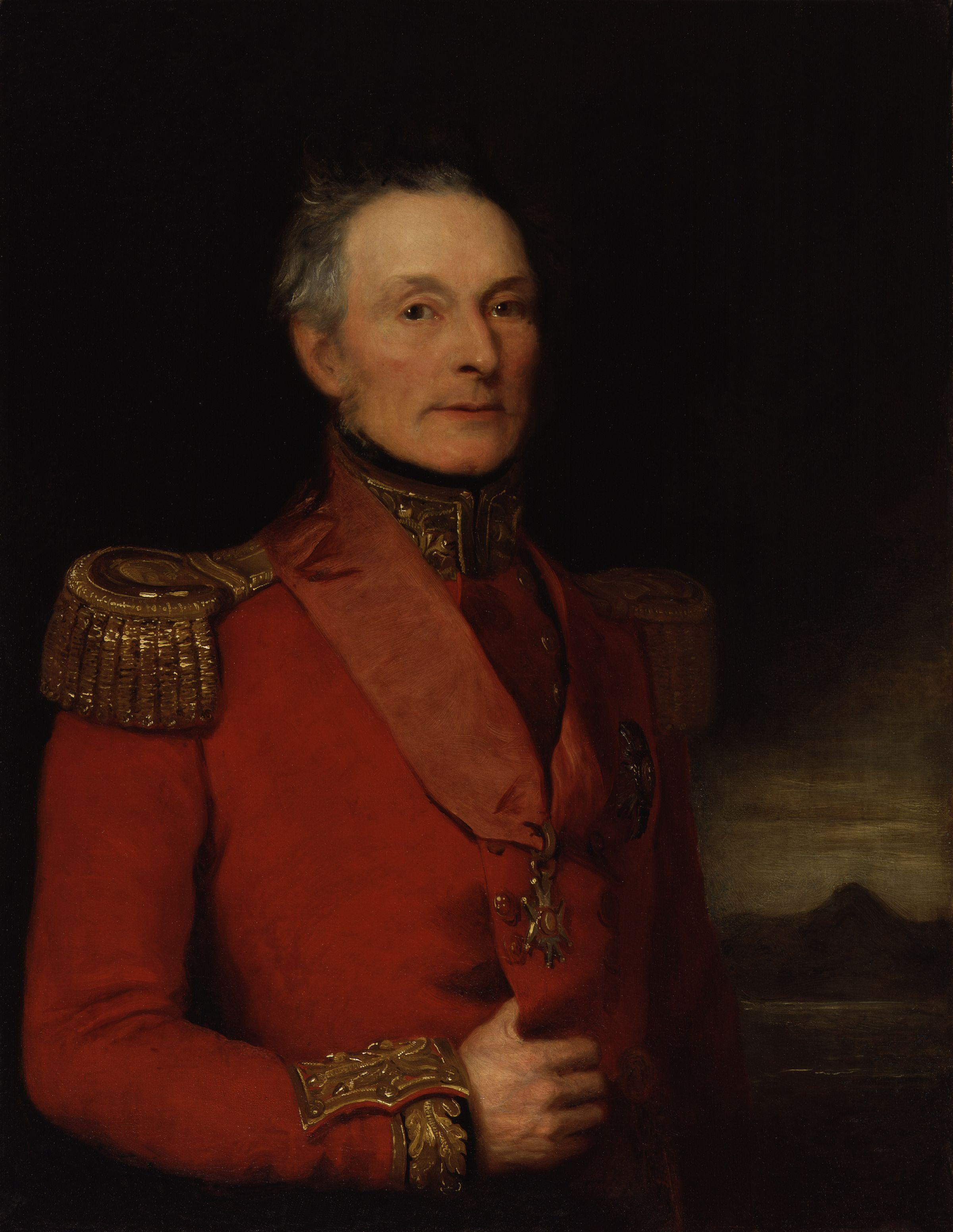 Sir Henry Sheehy Keating, by Andrew Morton (died 1845), given to the National Portrait Gallery, London in 1921. All images in this batch have been confirmed as author died before 1939 according to the official death date listed by the NPG.